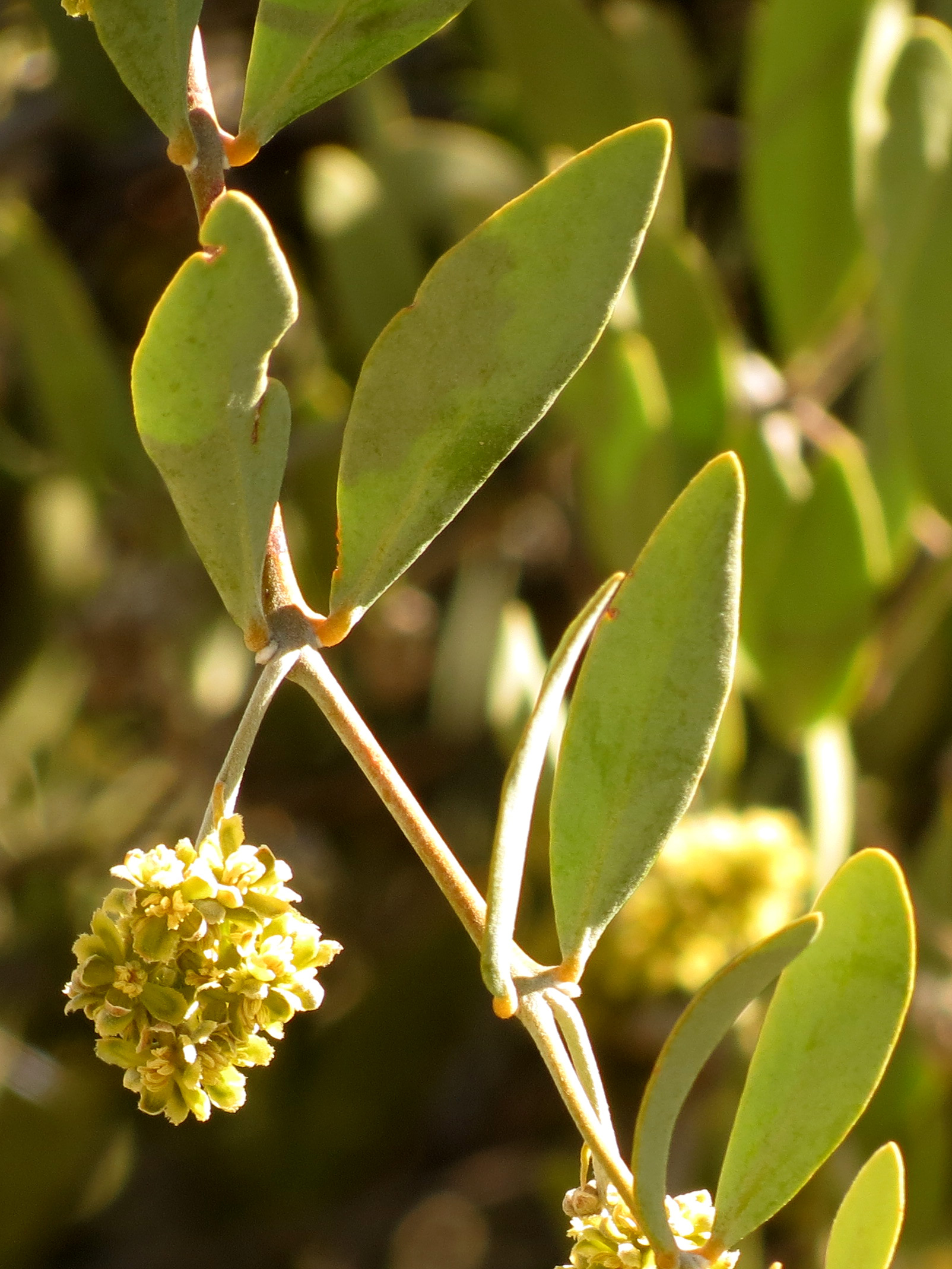 Simmondsia chinensis. King Canyon Wash, Tucson Mountains, Saguaro National Park West, Tucson, Arizona, USA.